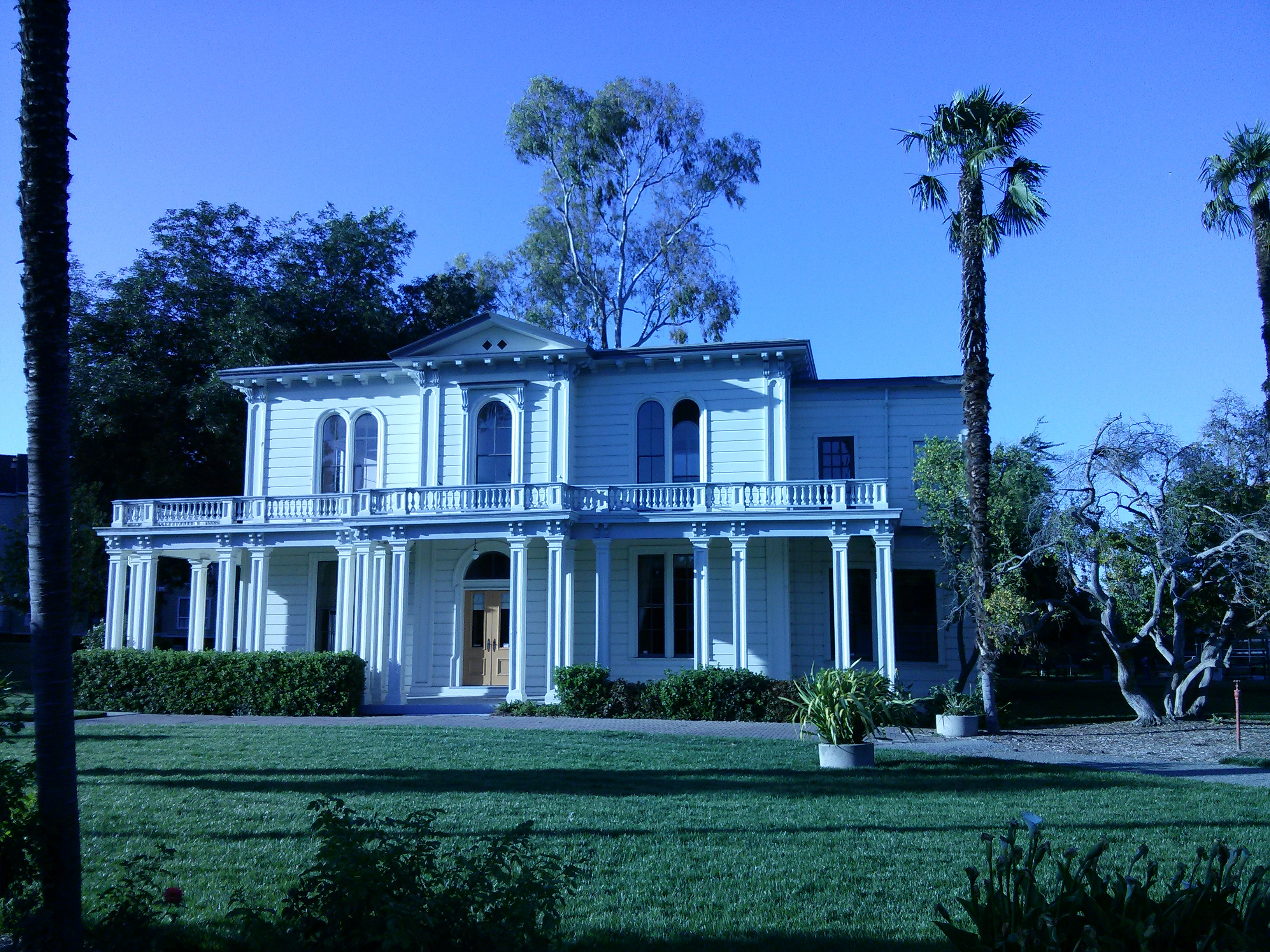 James Lick Mansion, Santa Clara, CA